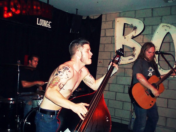 The Strikers